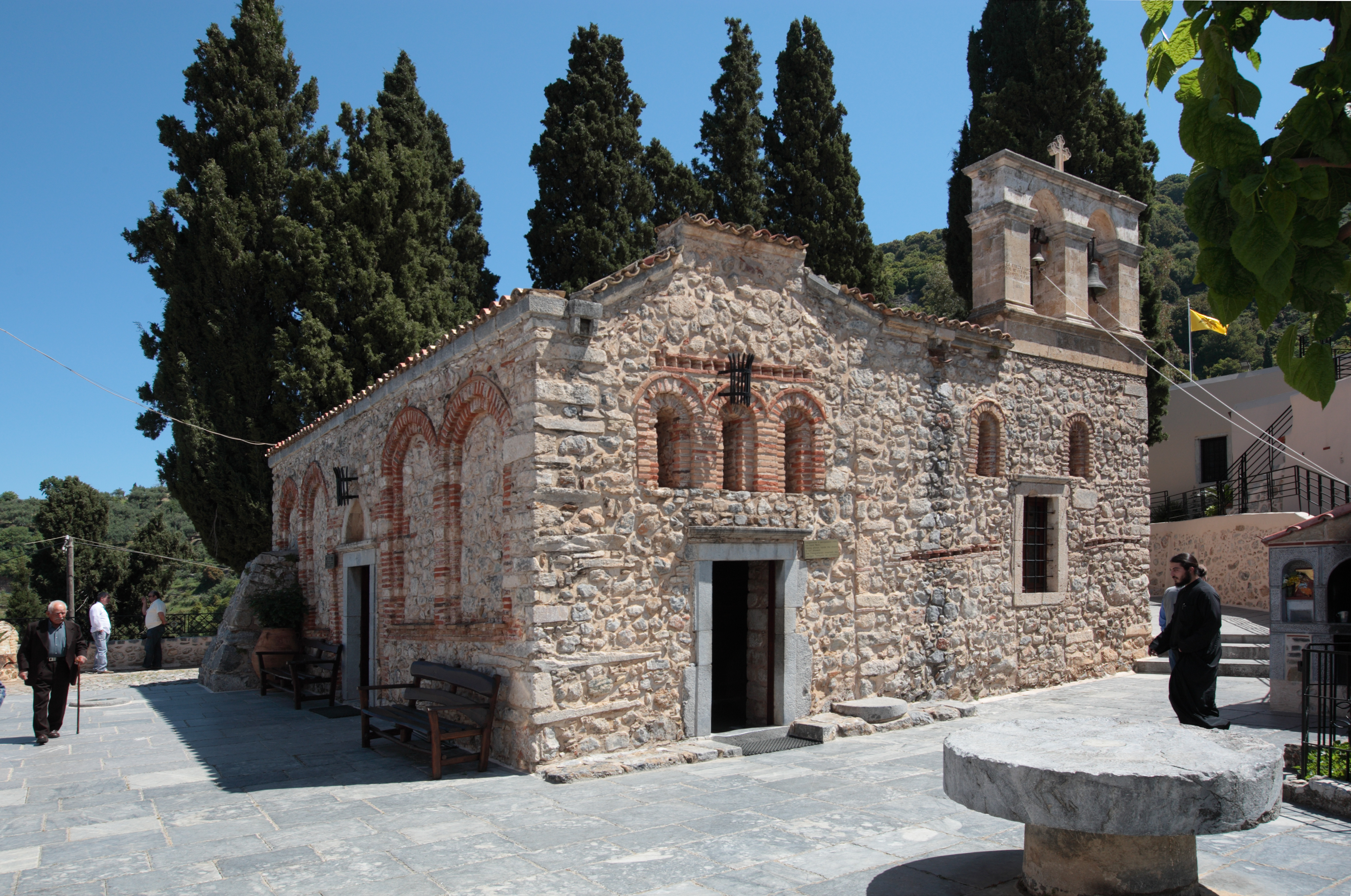 The Monastery of Kera Kardiotissa, Crete